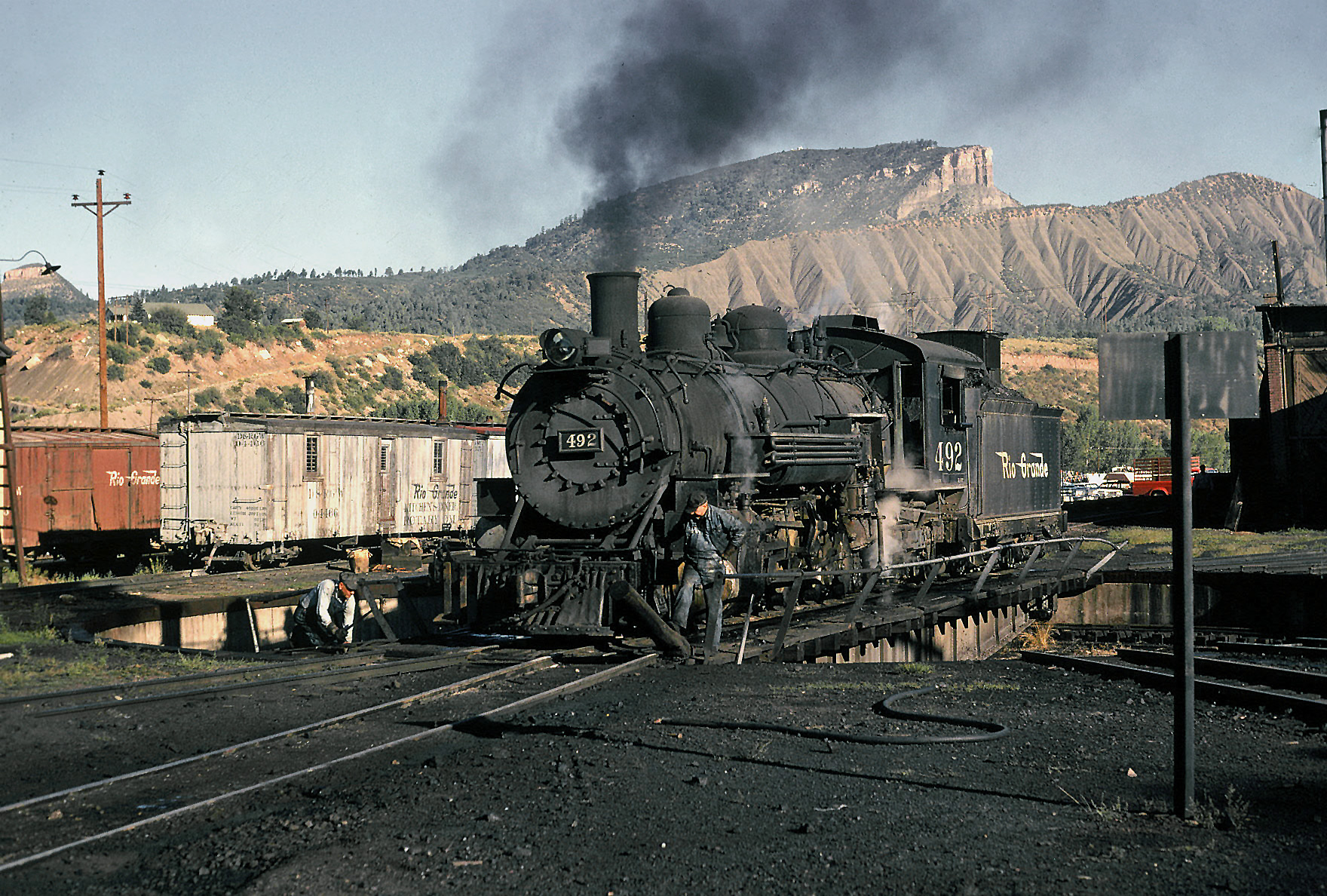 D&RGW 492 Durango turntable 8-65x